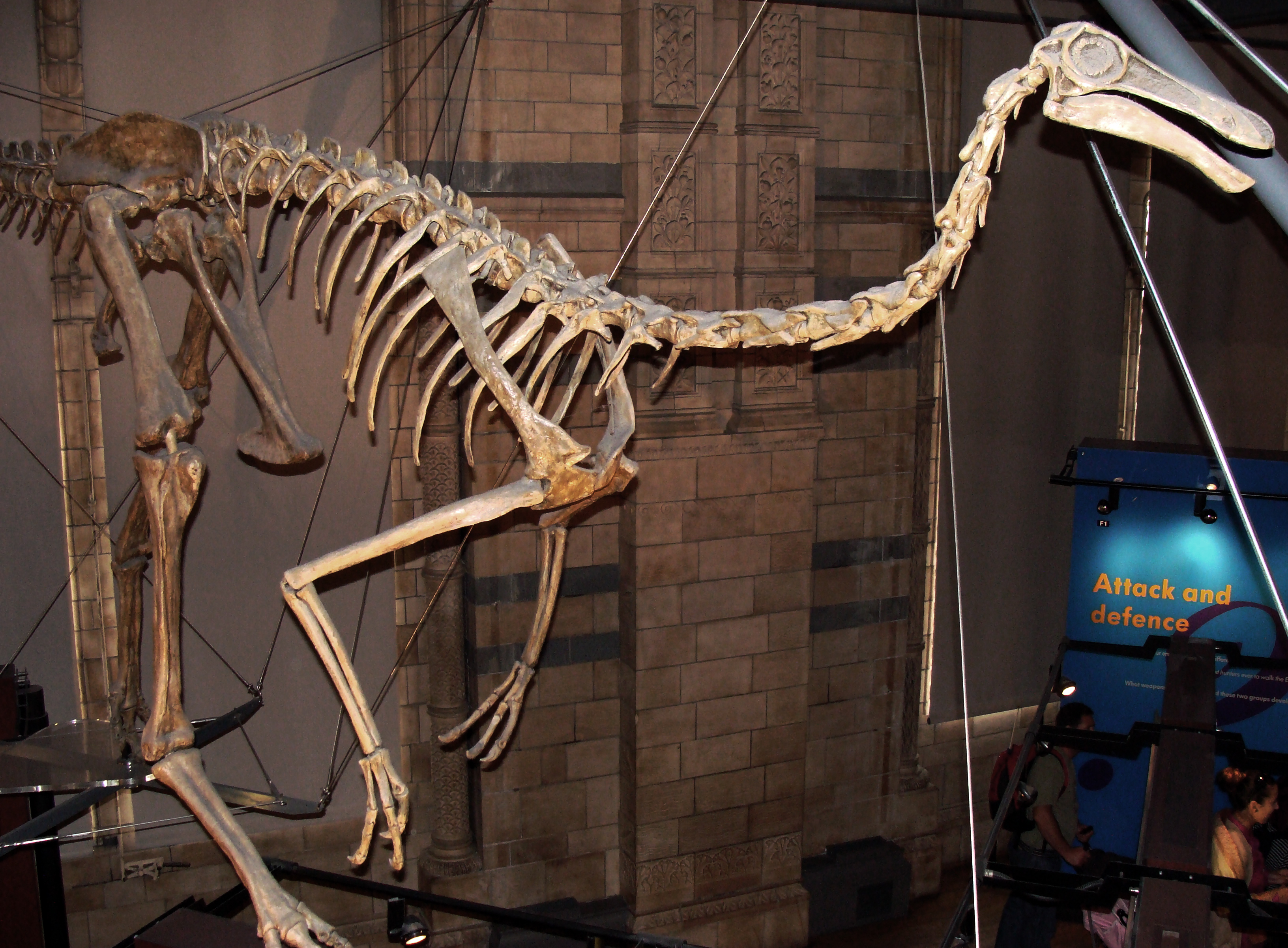 Gallimimus bullatus in the Natural History Museum of London